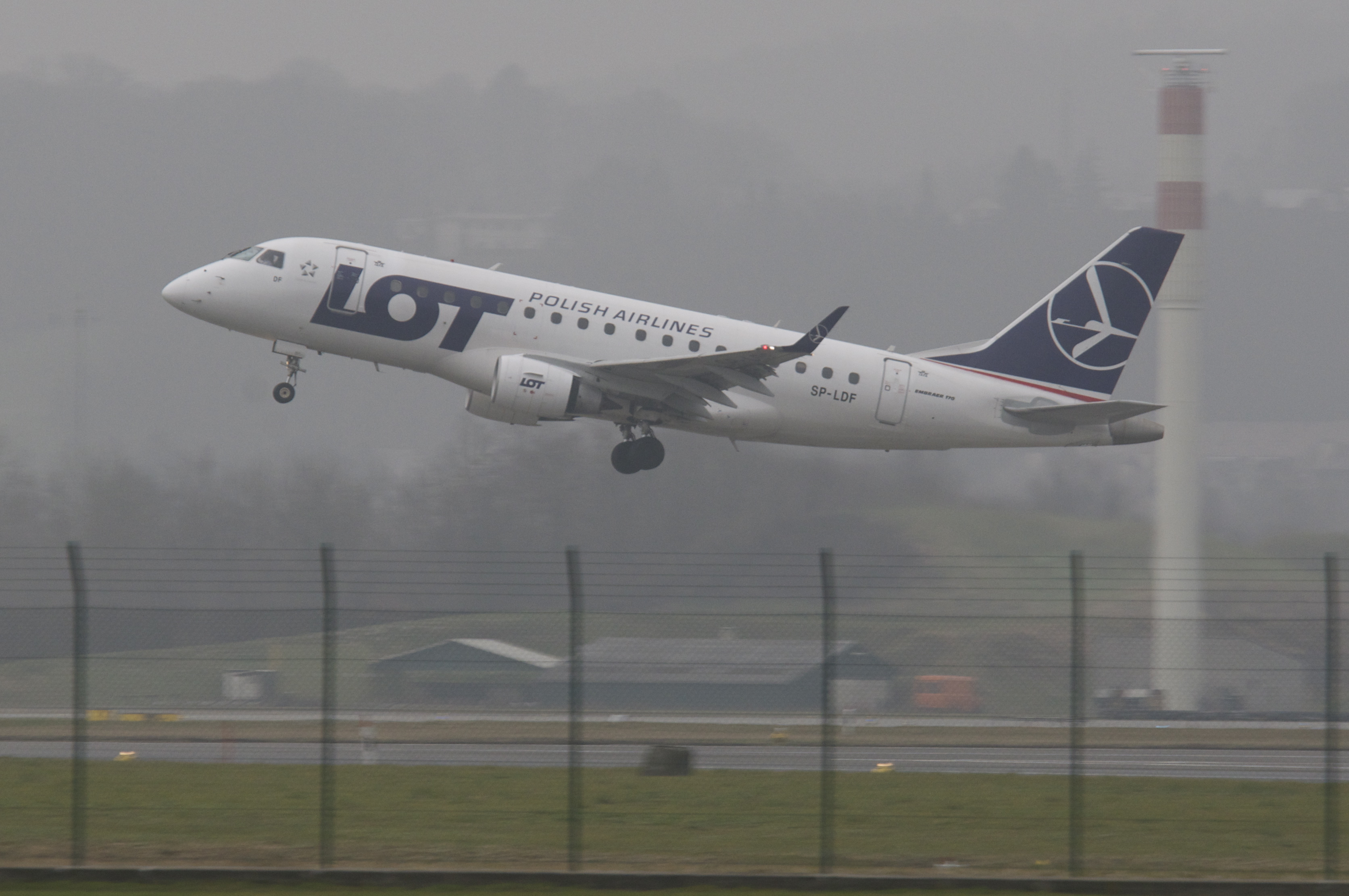 Departing as LO 412 to Warsaw...